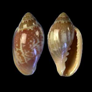 Species: Marginella aurantia Lamarck, 1822 data: N´gor, Senegal L 20mm